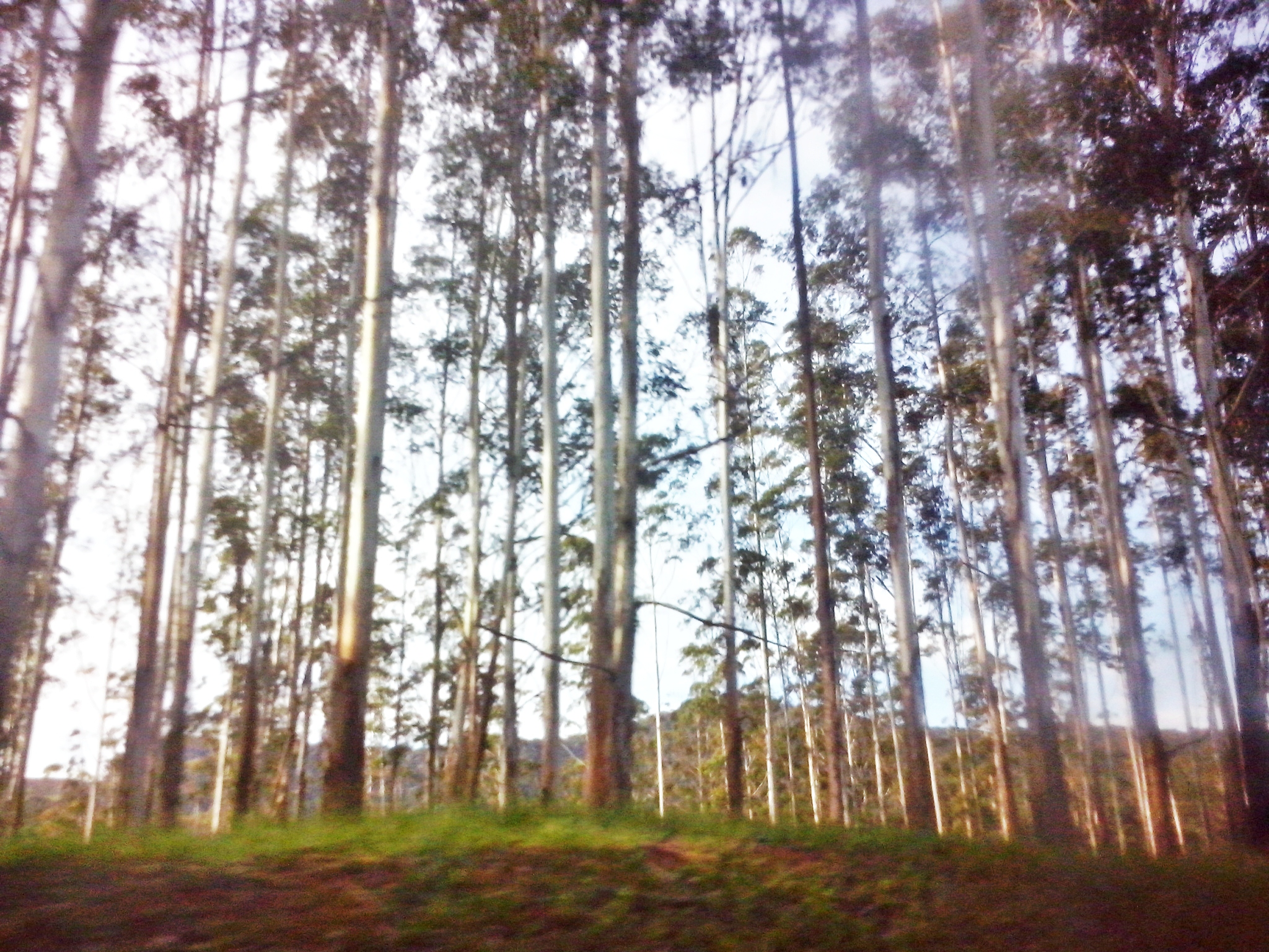 Eucalyptus in the MG-434 road street, in Itabira, Minas Gerais, Brazil.